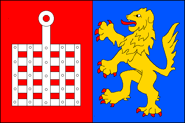 Municipal flag of Žeranovice village, Kroměříž District, Czech Republic.